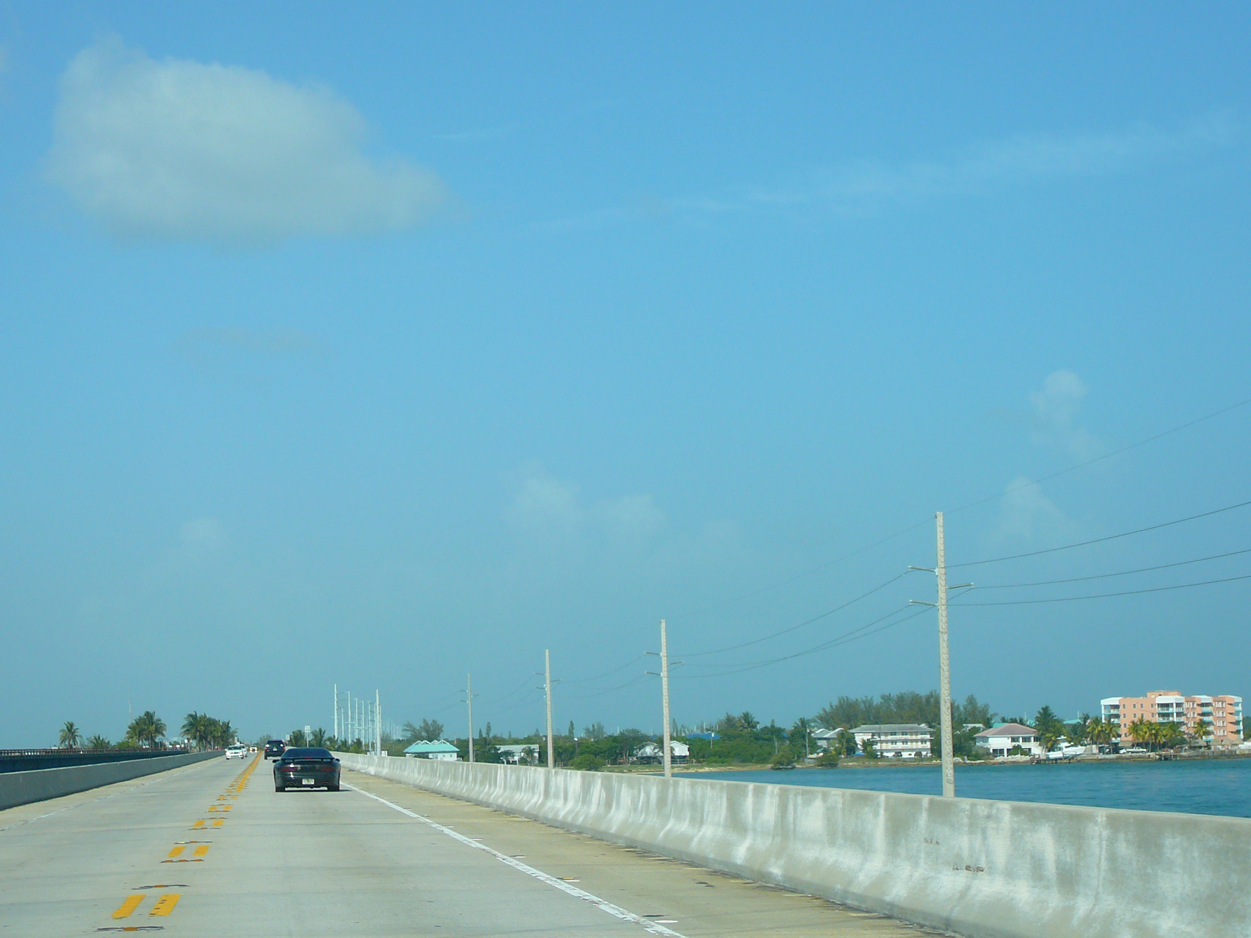 Digital photo taken by Marc Averette. View of the west side of Knight's Key (part of the city of Marathon) as seen from the Seven Mile Bridge 6/23/2008.